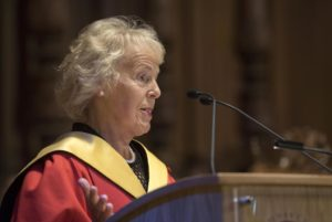 This is a photograph of Professor Alison J. Tierney's acceptance speech on the award of her honorary degree at the University of Edinburgh 2018